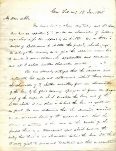 John Hough James Letter used with permission from Elizabeth Brice Assistant Dean for Technical Services & Head, Special Collections and Archives Miami University Libraries.